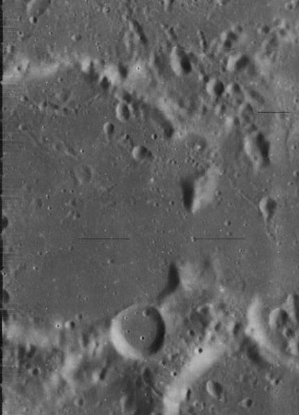 Part of Gum, on the moon.